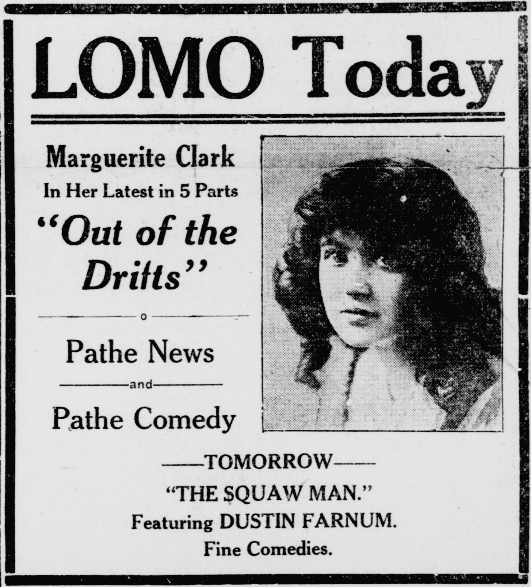 Out of the Drifts is a lost 1916 silent film romance produced by the Famous Players Film Company and distributed by Famous Players-Lasky and Paramount Pictures.